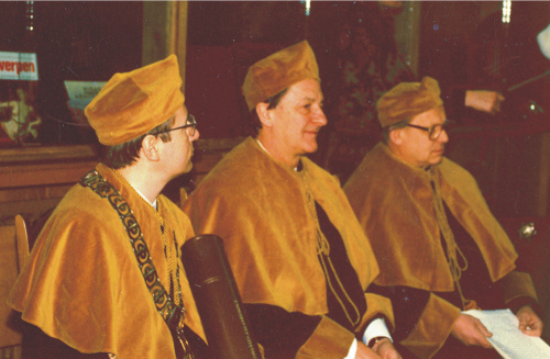 Oswald Leroy Doctor Honoris Causa Univeristy Gdansk 1991. From left to right: Maertens (Rector Catholic University of Leuven campus Kortrijk), Oswald Leroy, Antoni Śliwiński (University of Gdansk).